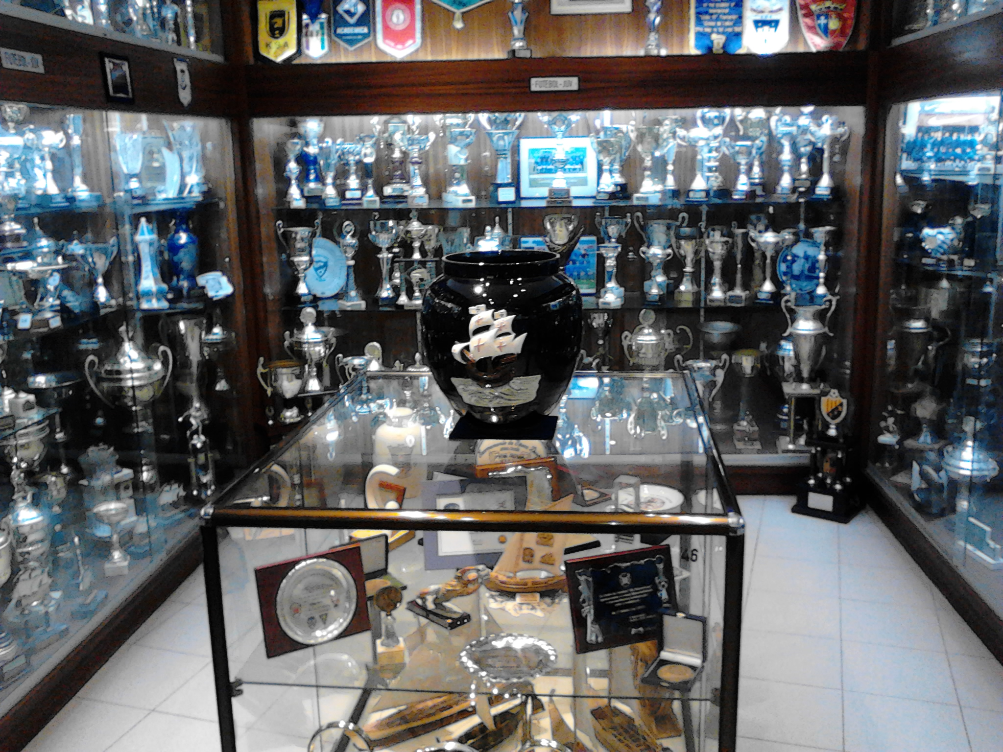 Several association football related trophies at Sala 2